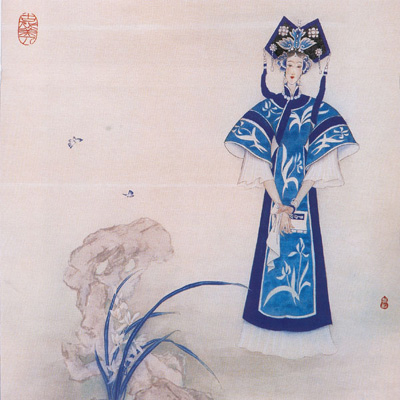 Depicted person: Consort Donggo – Chinese manchu Shunzhi emperor concubine under Qing Dynasty